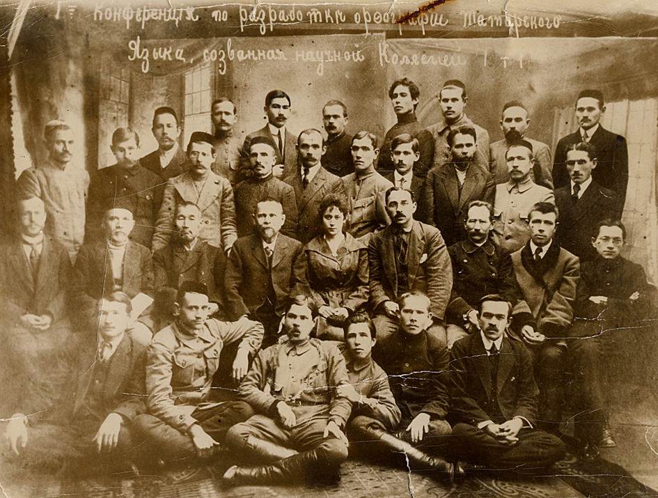 Mustafa Suphi (fourth from left in the [from back to front] first sitting row) with delegates of Tatar Language Conference. Also Amina Muhiddinova (same row, fifth from left), Vice-chairman of the Muslim Socialist Committee of Kazan, can be seen in picture.